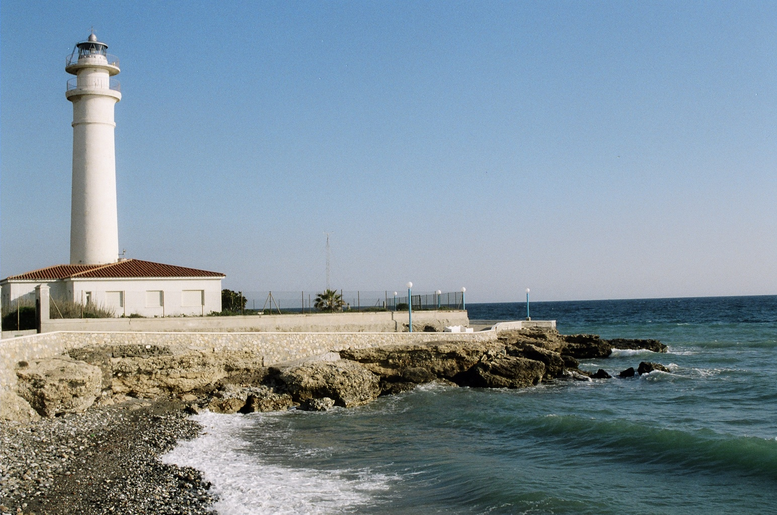 own work